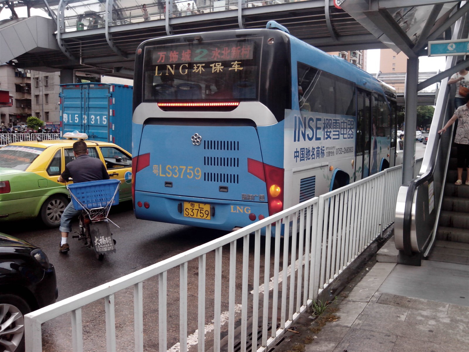 A Granton GTQ6857NGJ bus which is powered by liquid natural gas and enlisting on Huizhou City Bus Cooperation Route 2. The plate number of this bus is "粤L•S3759" . The photo was taken at the bus stop of Nanmen Park.